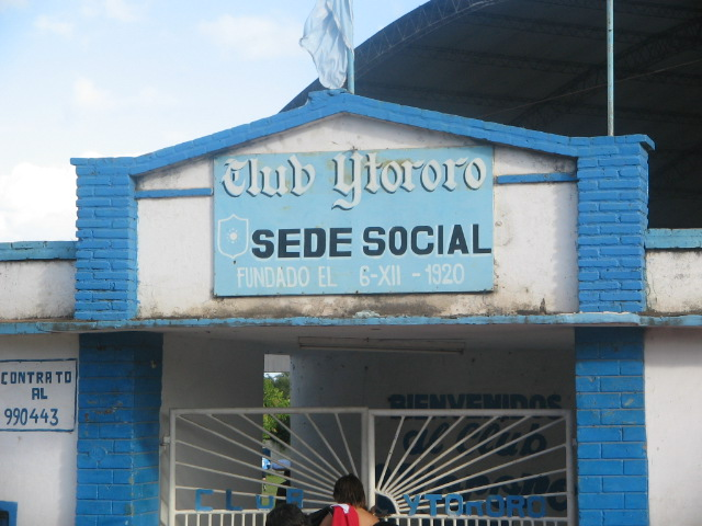 Club Ytororo, San Antonio, Paraguay.